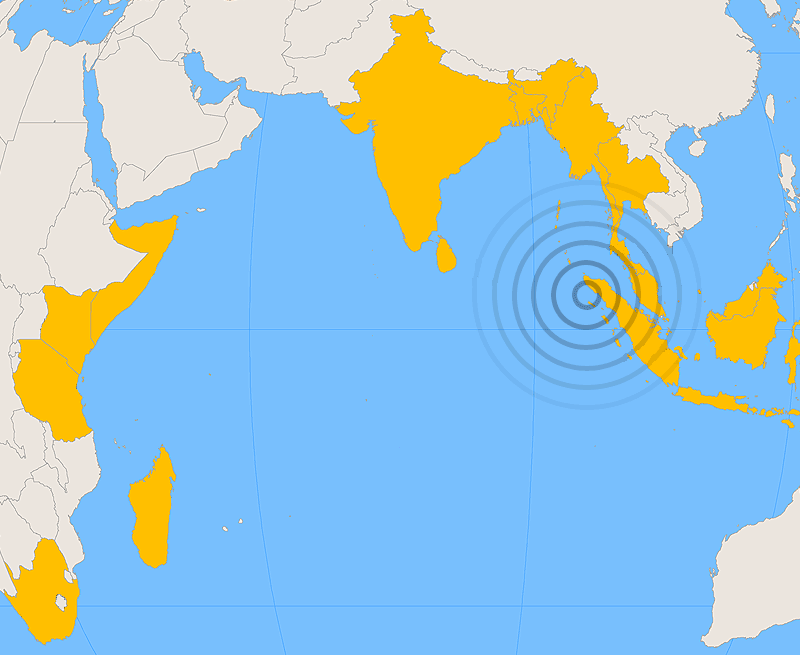 Subject: Map showing countries affected by the 2004 Indian Ocean earthquake. Source: Created by Cantus using ArchView and Photoshop. Orthographic projection, centered at lat. 0°, long. 80°.